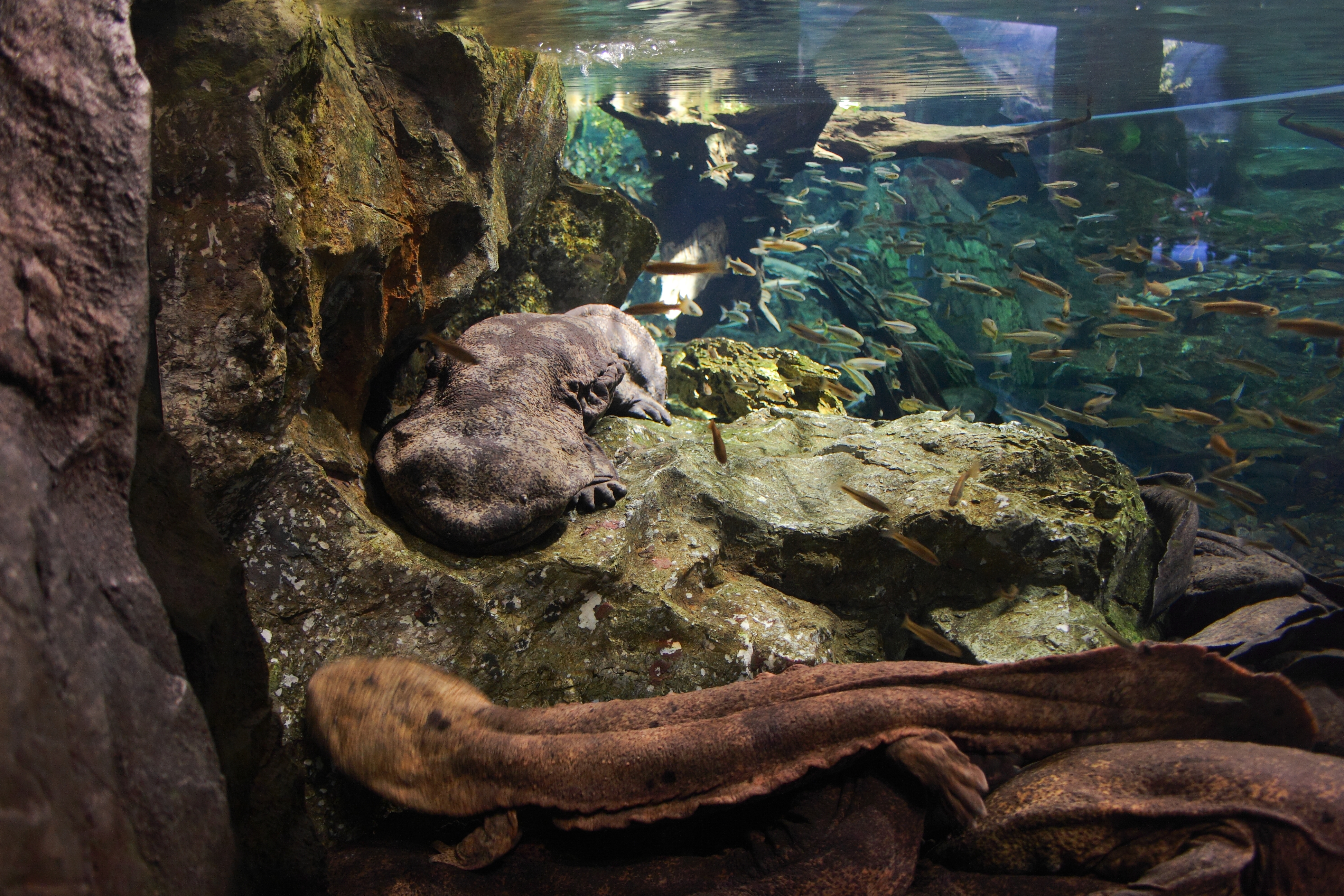 Captive Japanese Giant Salamanders in the Kyoto aquarium.